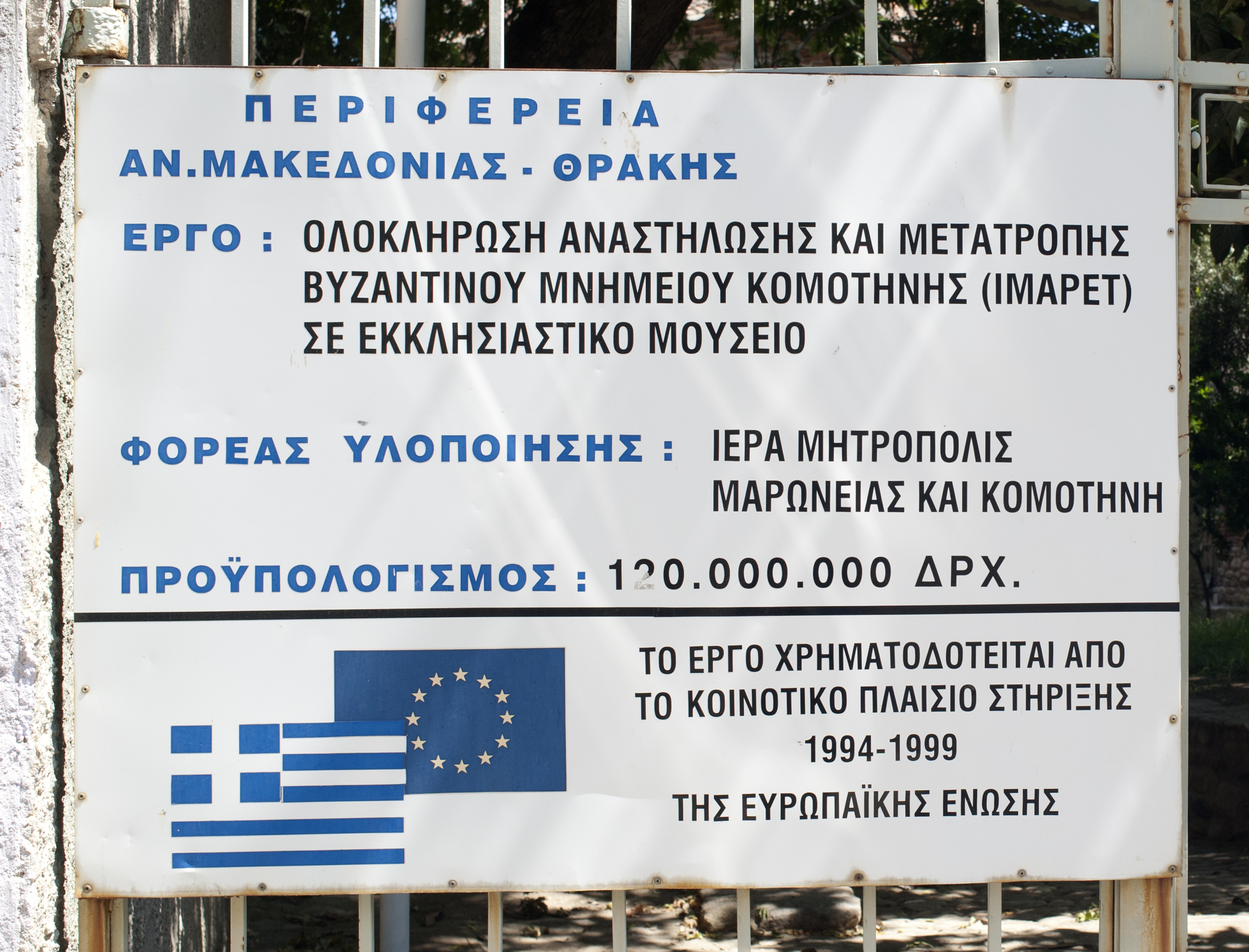 Sign (July 2012) metioning Ottoman Imaret of Komoti as a Byzantine monument, Komotini, Rhodope, Greece.